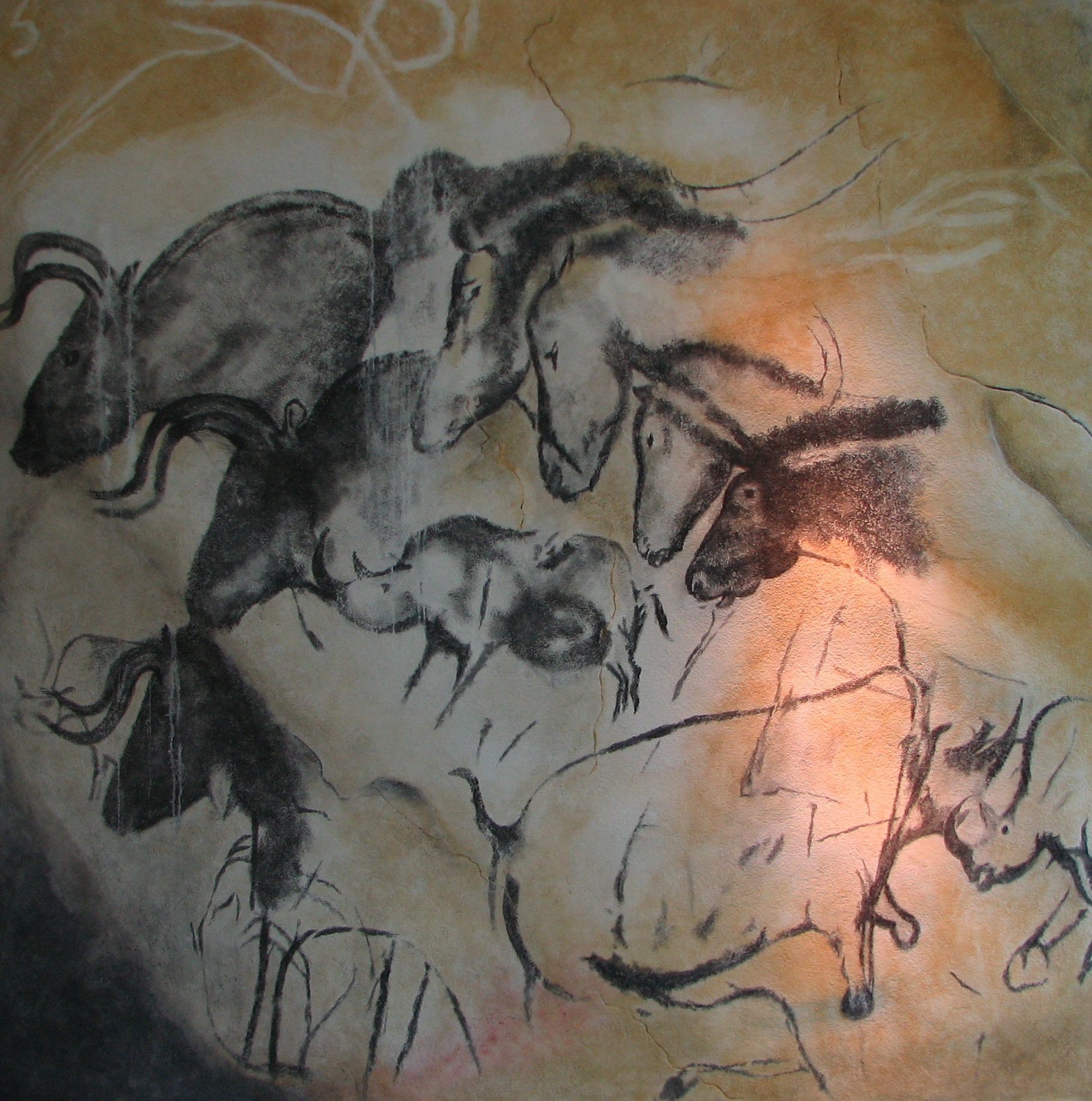 Replica of the painting from the Chauvet cave, in the Anthropos museum, Brno. The original art is approximately 31,000 years old, probably Aurignacien. The group of horses probably does not picture a herd of them, but some kind of etiological study, showing, from left to right, calmness, aggression, sleep and grazing.